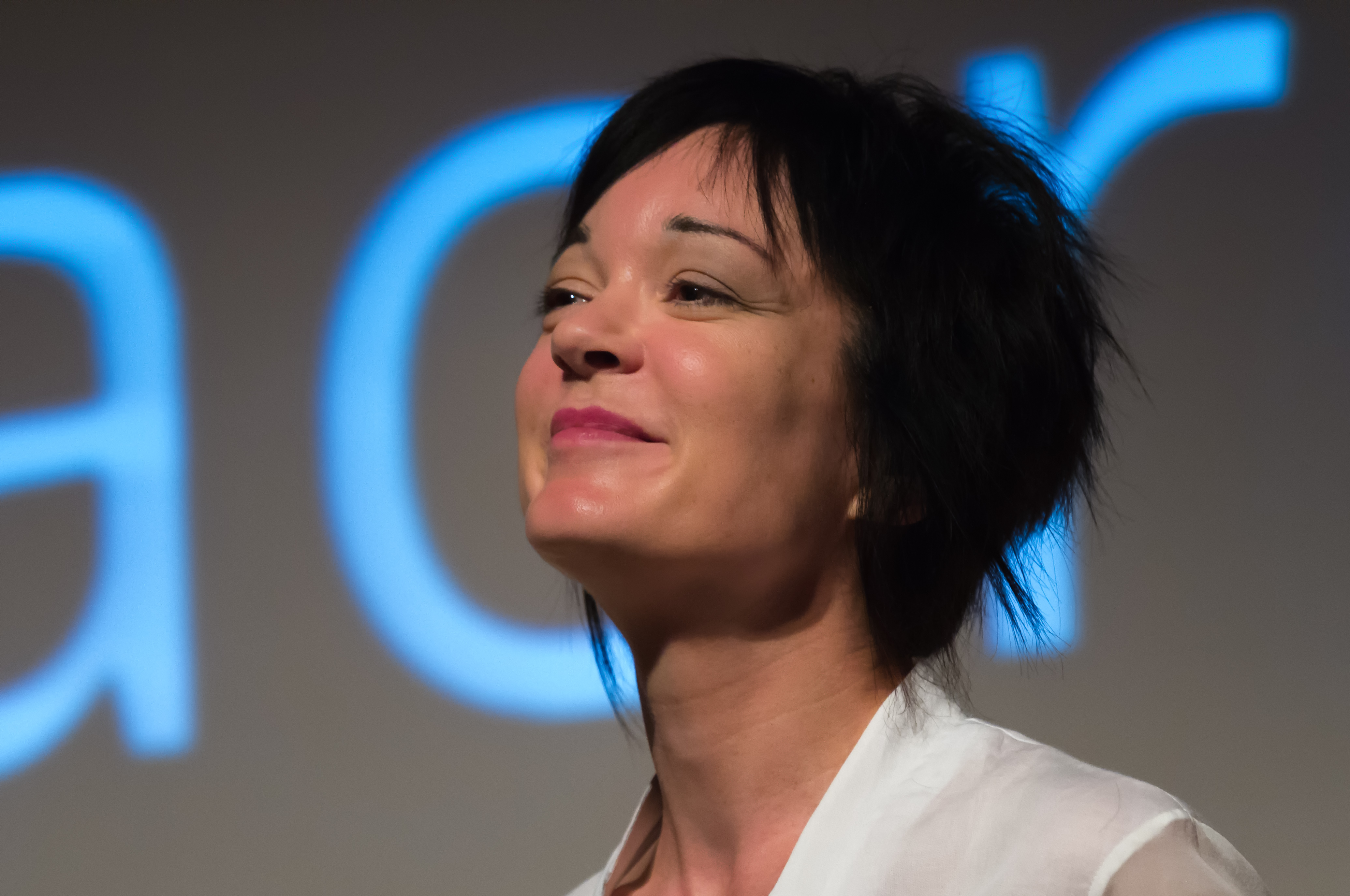 Sue Gardner during her presentation at Wikimania 2013. Hong Kong, August 11th, 2013.